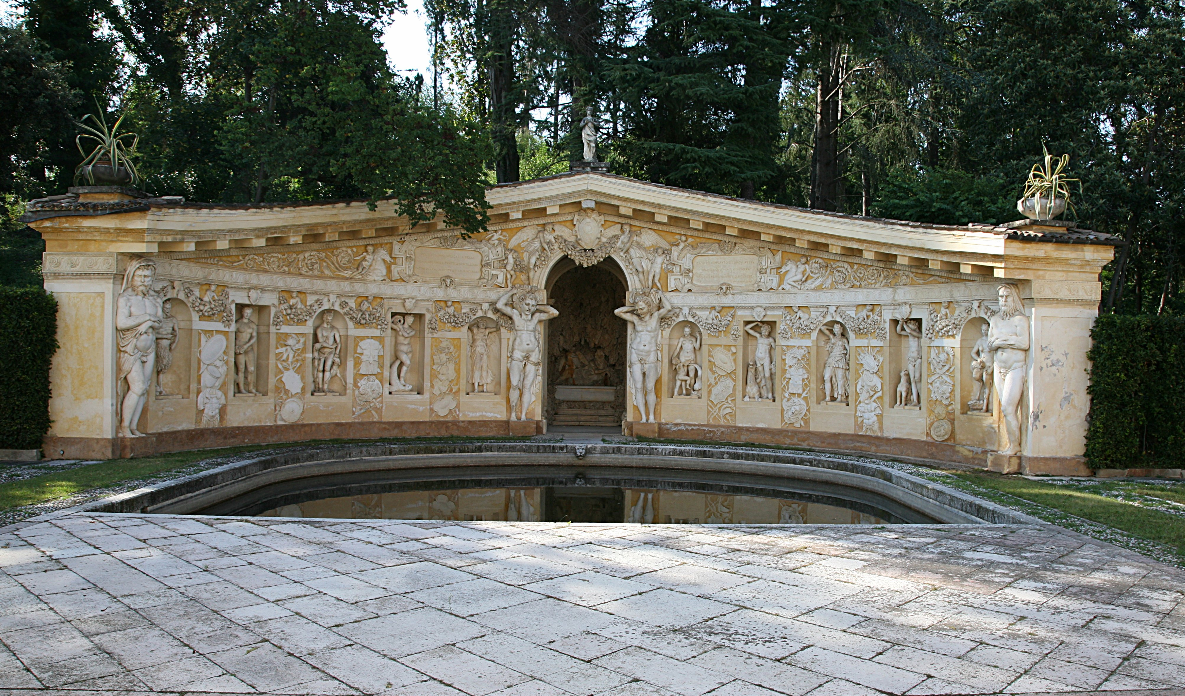 Villa Barbaro at Maser by Andrea Palladio.